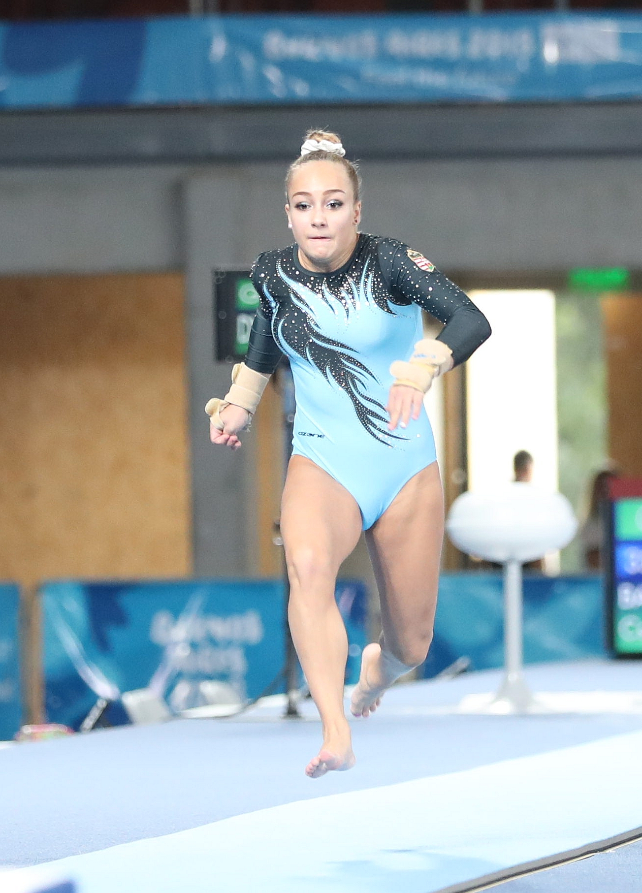 Vault qualification of the girls' artistic gymnastics at the 2018 Summer Youth Olympics in Buenos Aires on 8 October 2018. Depicted: Csenge Bácskay.